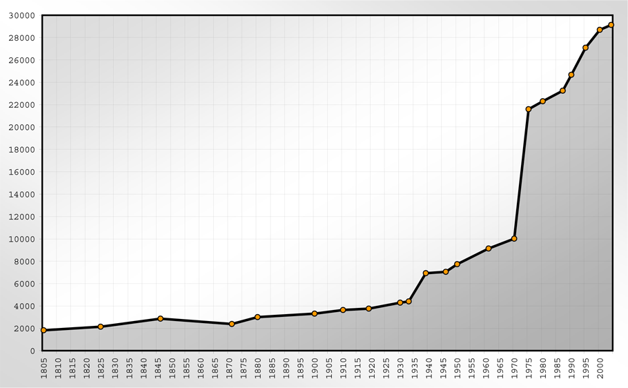 This image shows the population statistics of Bühl (Baden, Germany).